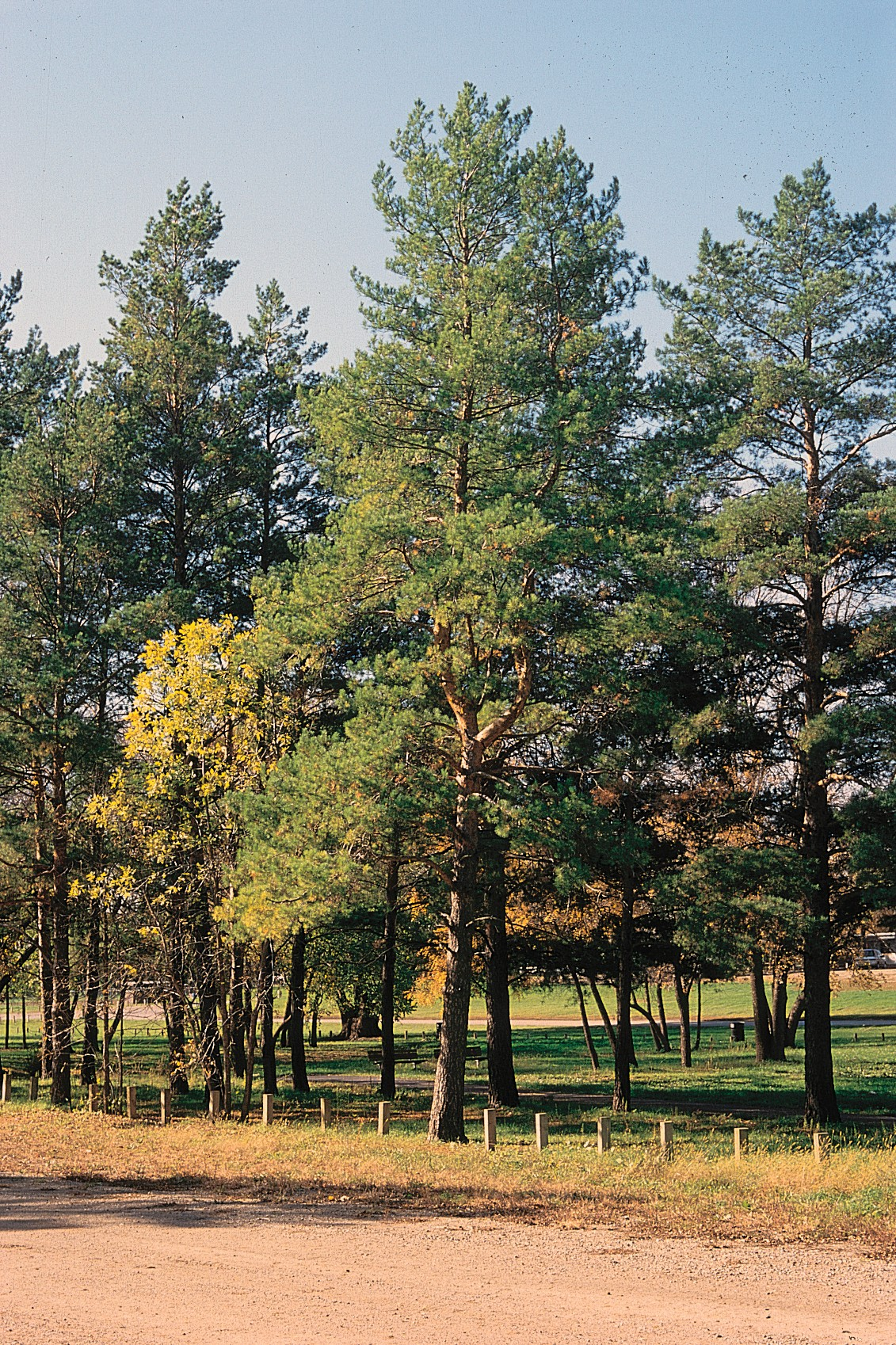 Pinus sylvestris L. en: Scots Pine. Tree.